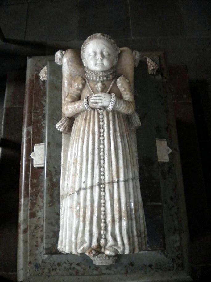 Princess Elizabeth “Isabella” of Sweden as depicted on the sarcophagus of her grave sculpted by Willem Boy about 1570Place: Strängnäs domkyrka, Strängnäs, Sweden